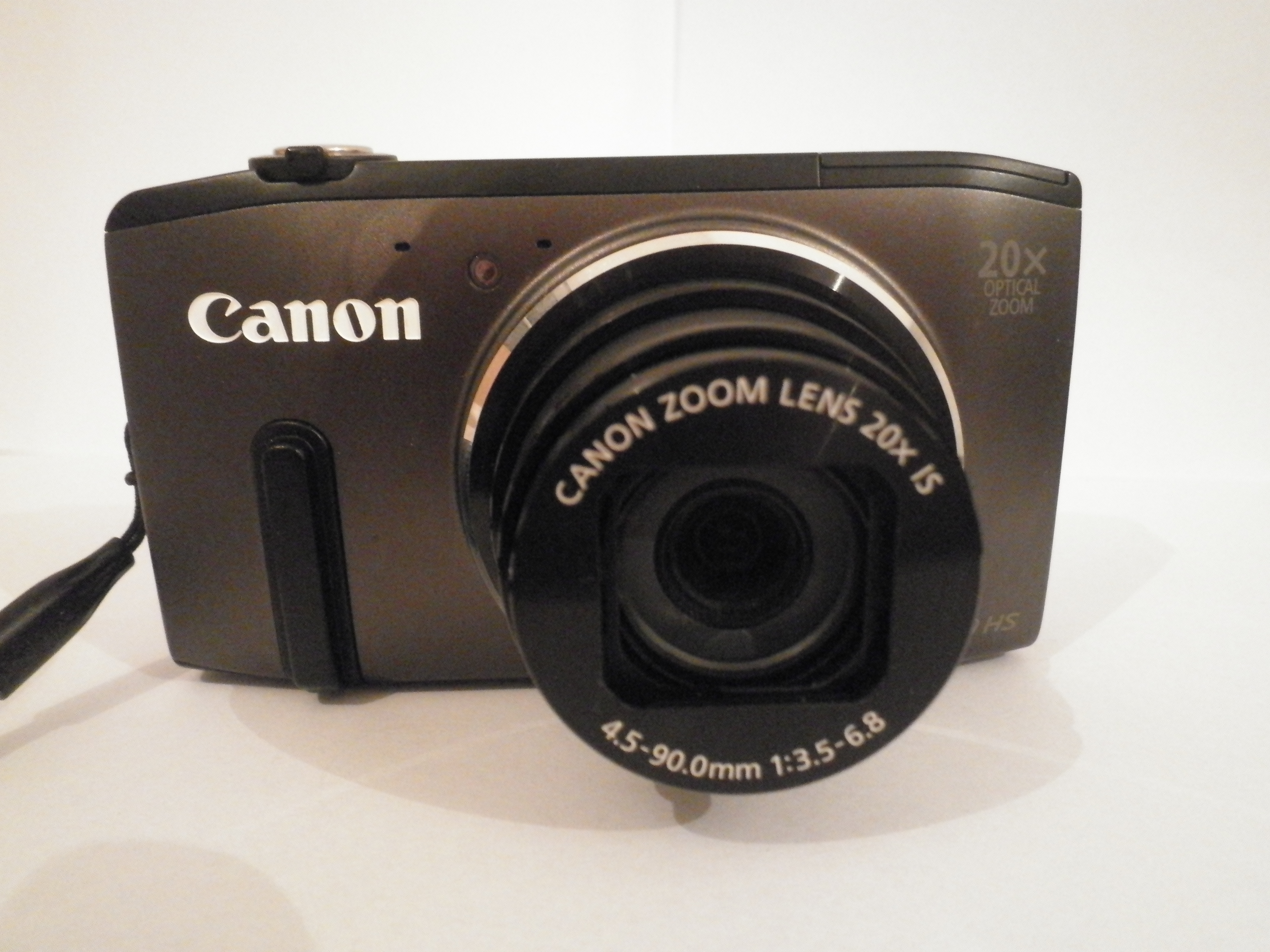 Canon PowerShot SX270 HS